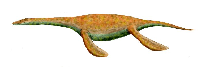 Pistosaurus longaevus, from the Middle Triassic of Europe, pencil drawing (reconstruction after Carroll, 1988)